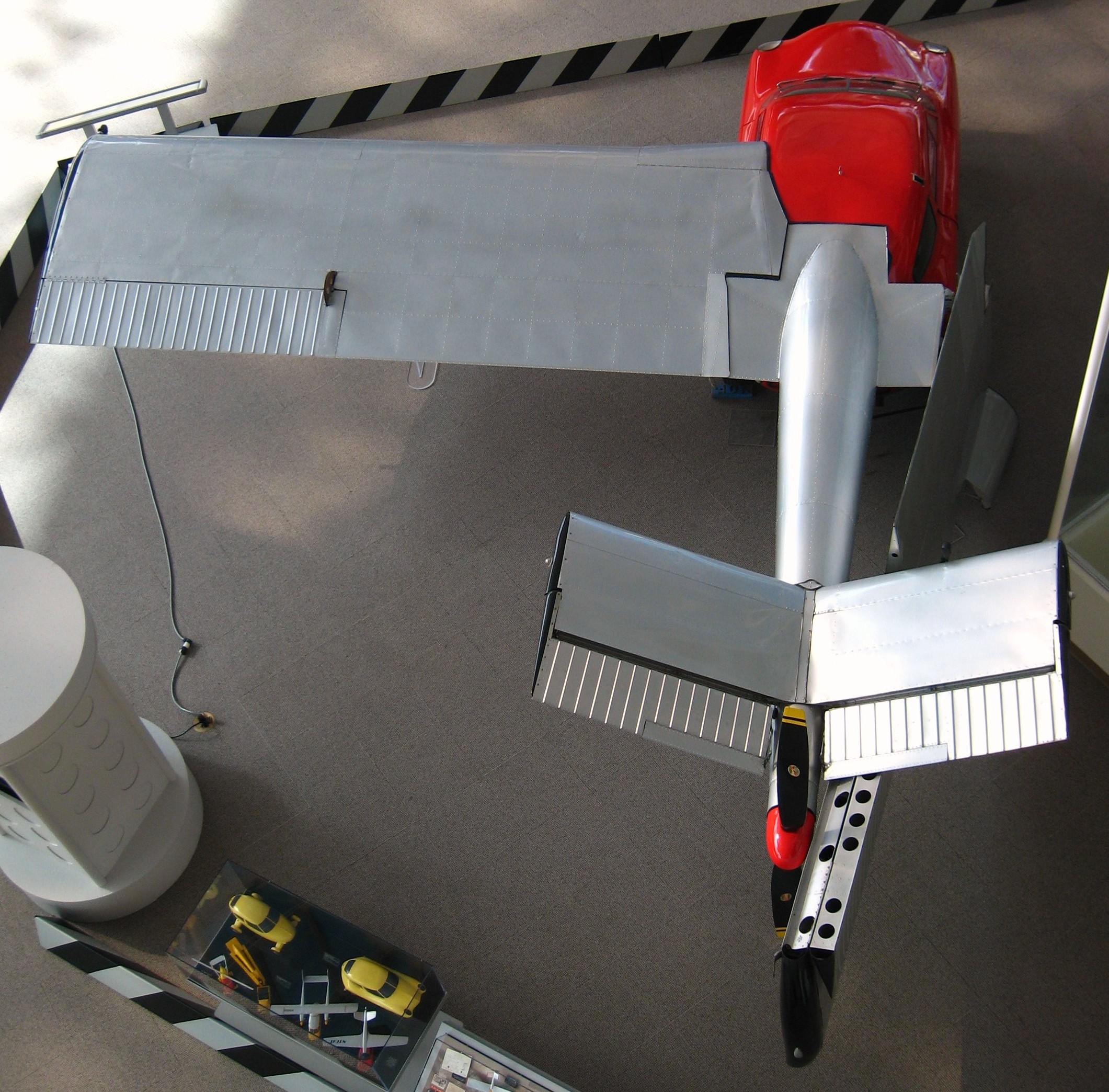 The Taylor Aerocar III at The Museum of Flight in Seattle, WA.